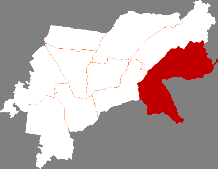 Location of Qing'an County in Suihua City, China